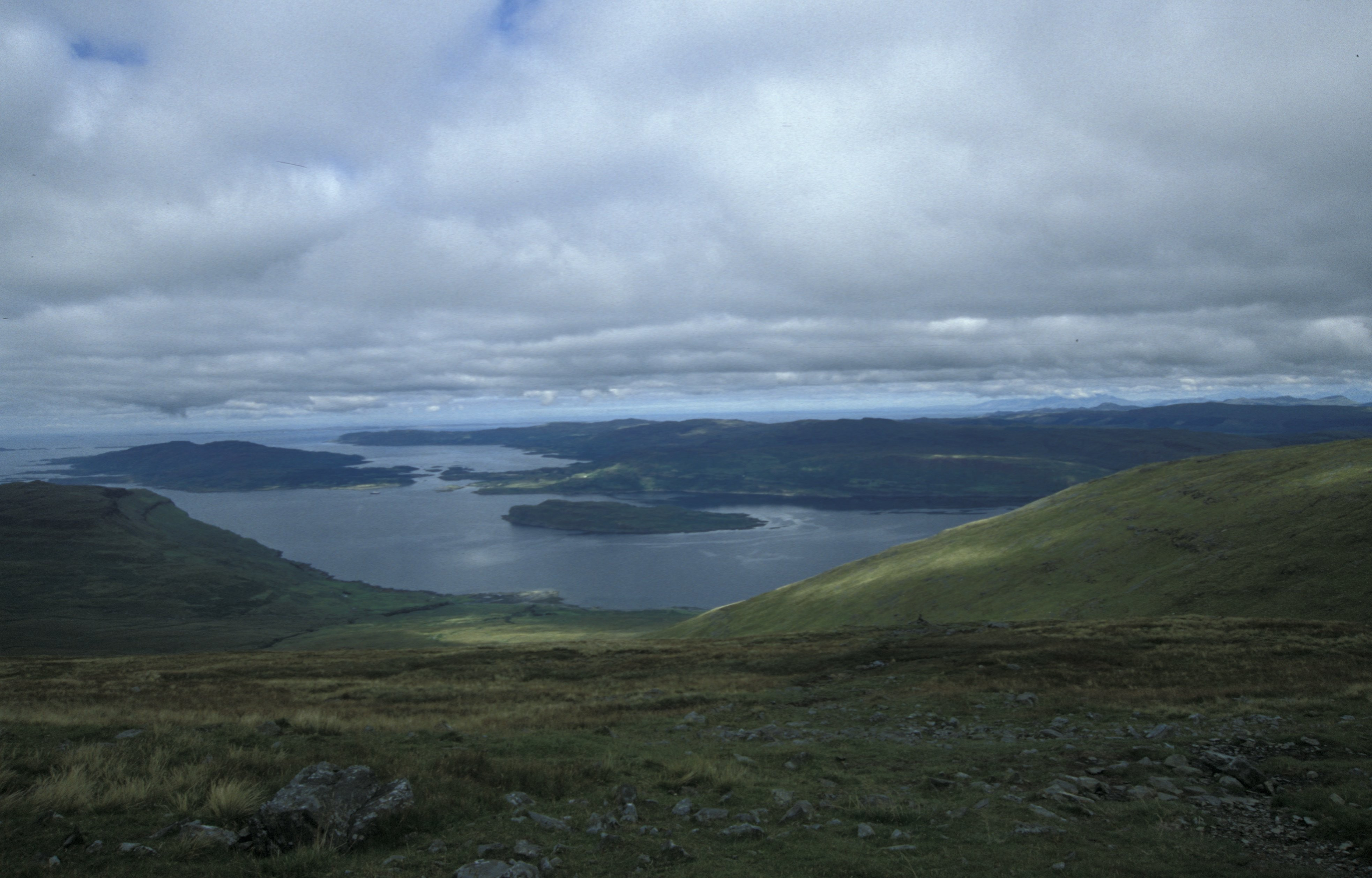 Loch Na Keal, Scotland, view from the northern slope of Ben More (mountain), Mull (island). Ulva can be seen in the background.